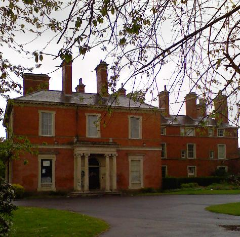 Image of Red House, Great Barr, Birmingham, taken by myself, May 2007